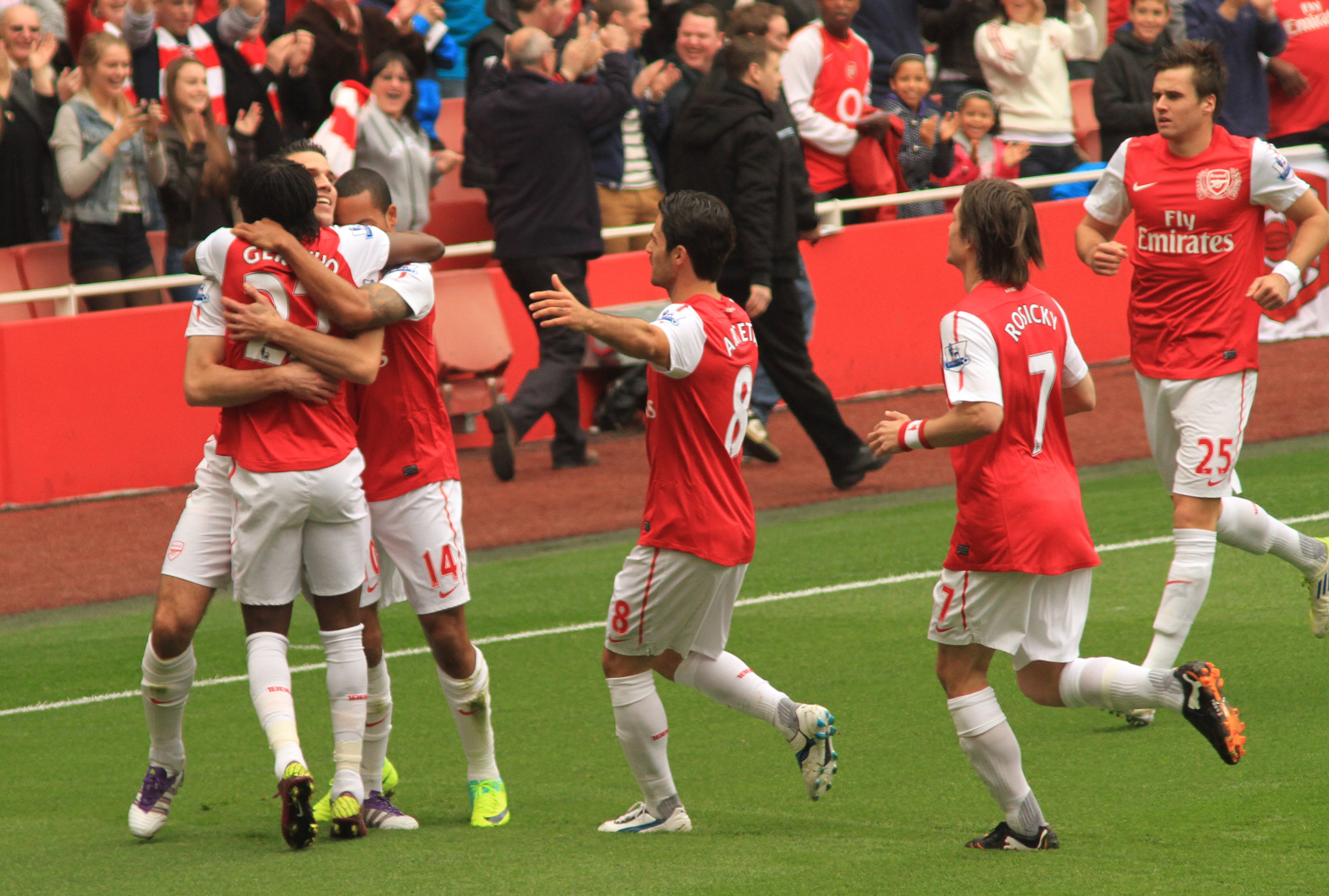 Van Persie Goal Celebrations 06